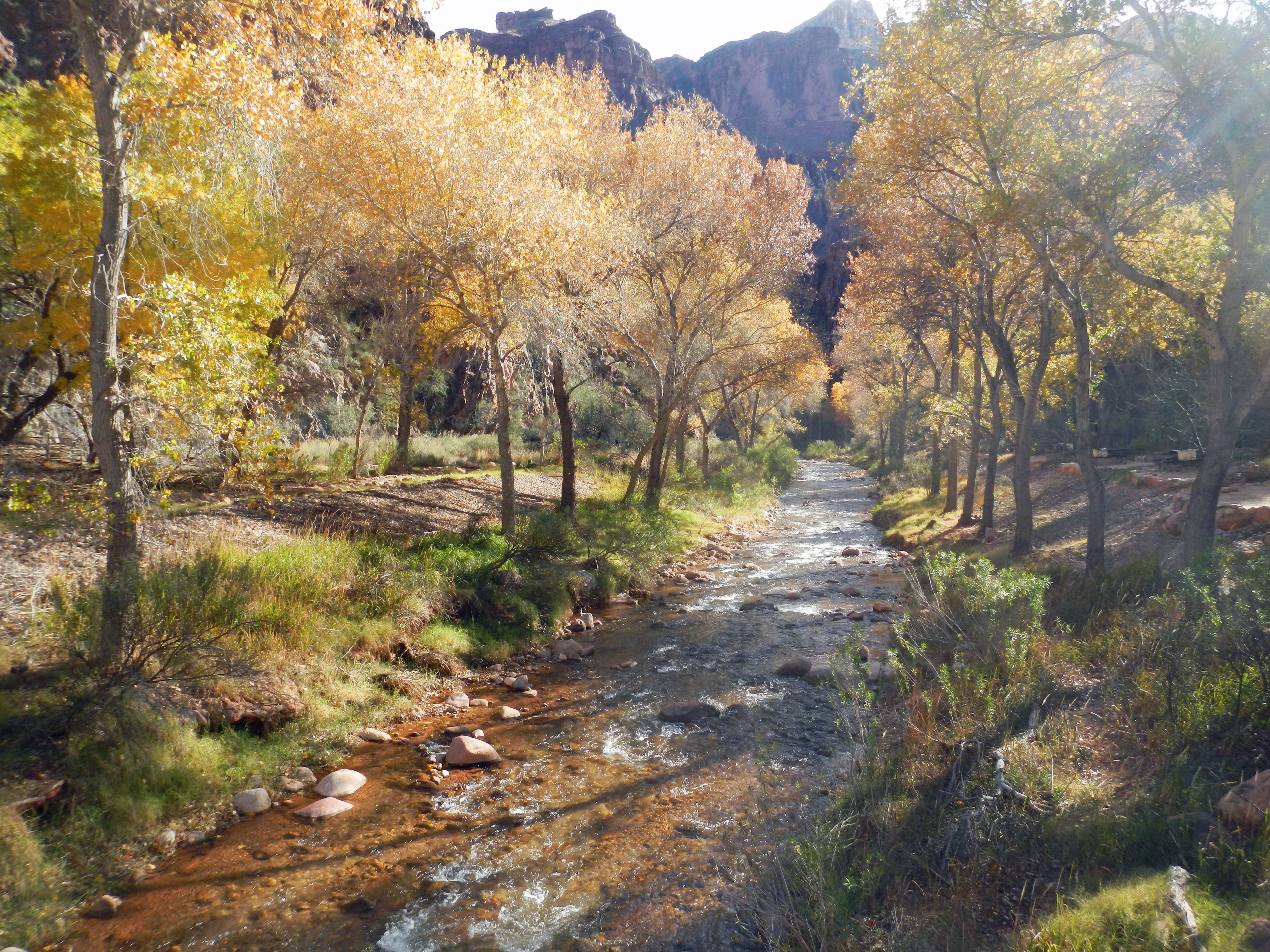 Looking downstream on Bright Angel Creek from the bridge to Bright Angel Campground to Phantom Ranch in Grand Canyon National Park, Arizona on December 8, 2013.